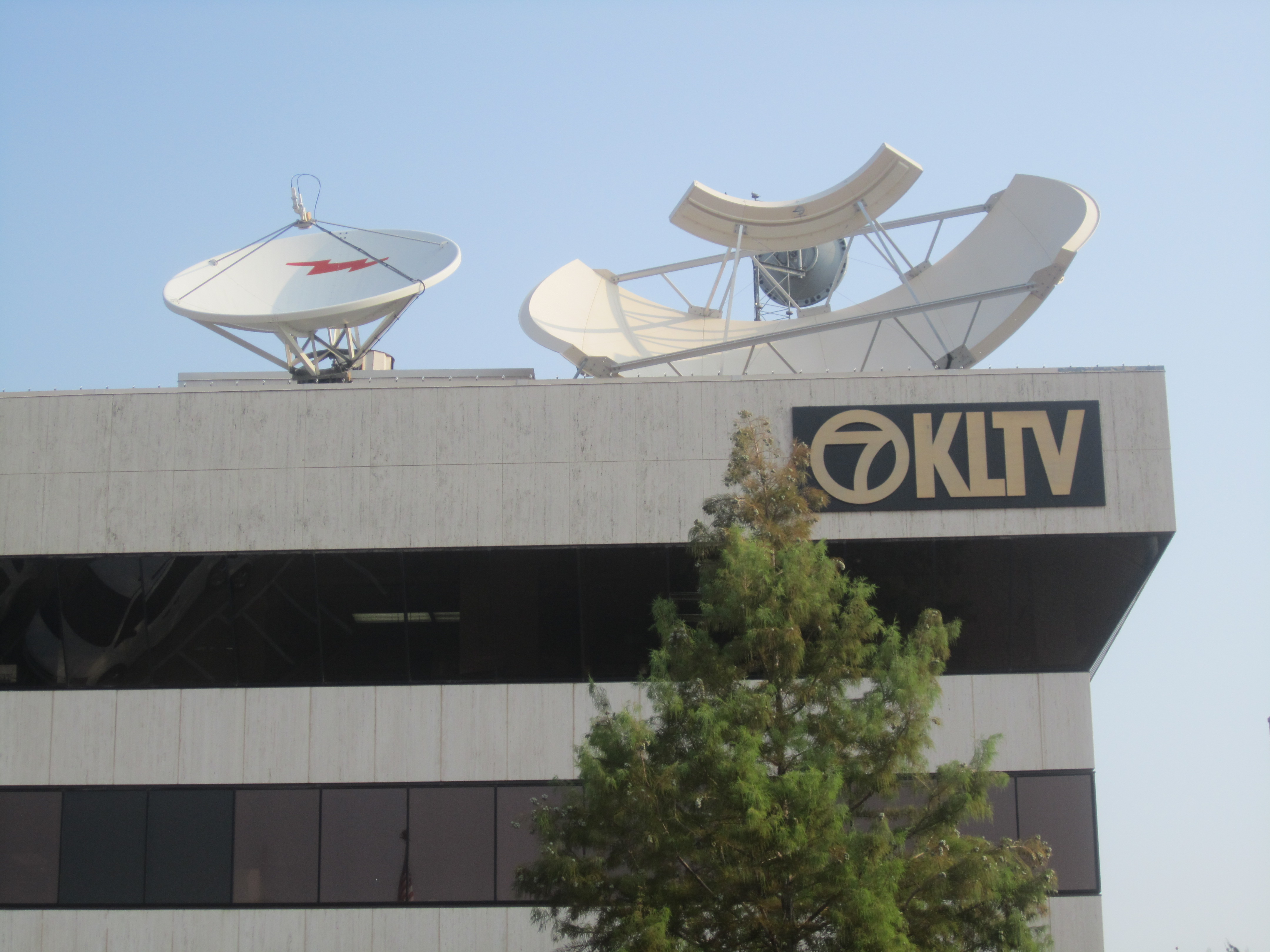 I took photo with Canon camera in Tyler, TX.